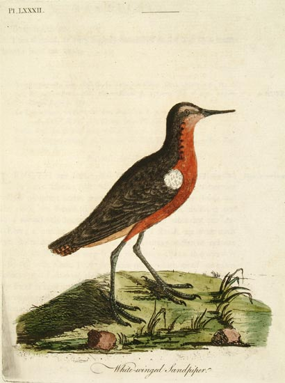 Plate LXXXII from "A General Synopsis of Birds" Volume III, Part I. By John Latham (1740–1837). Published in 1785.